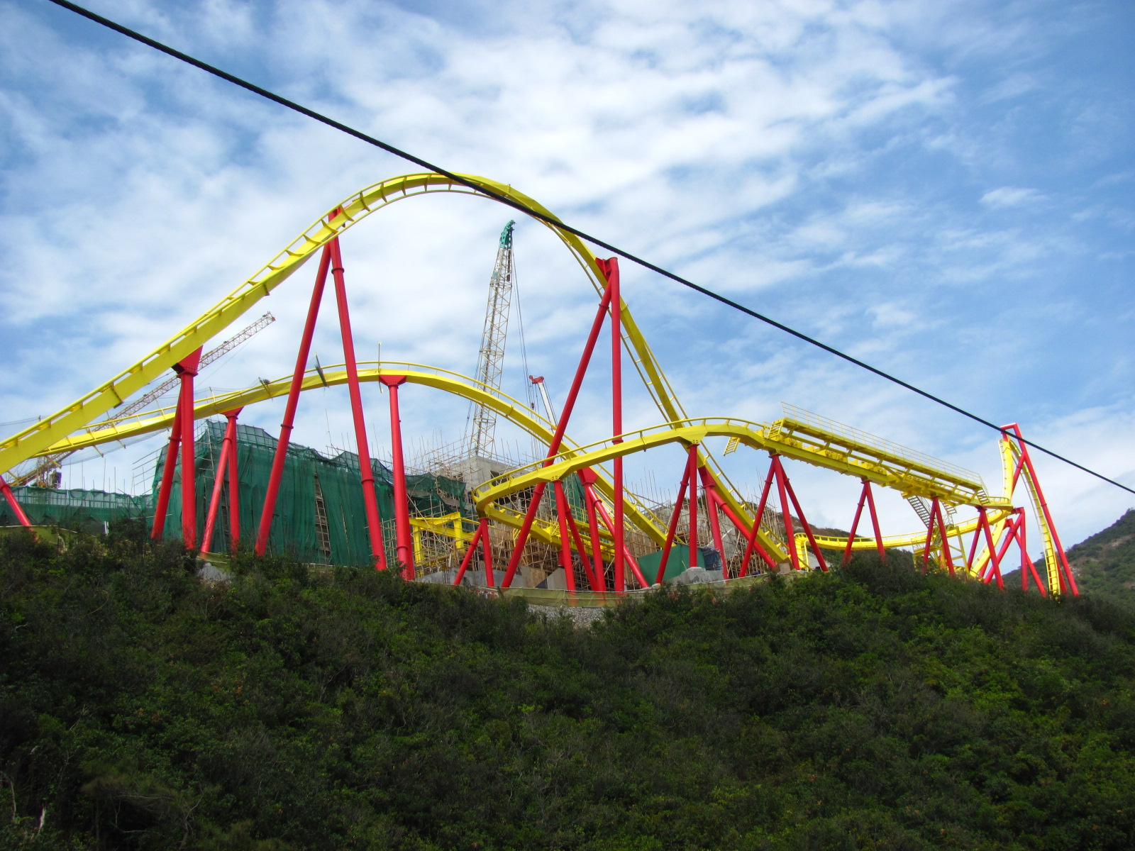 Ocean Park 172